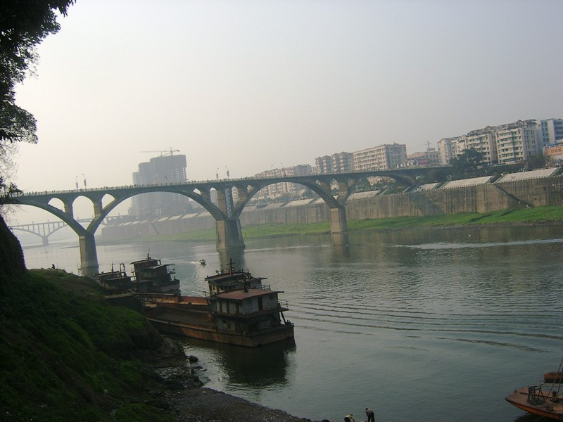 Two bridges cross Hu river in Hechuan,Chongqing,China. The photo is taken by Mr Chen Hualin on February 20,2007.